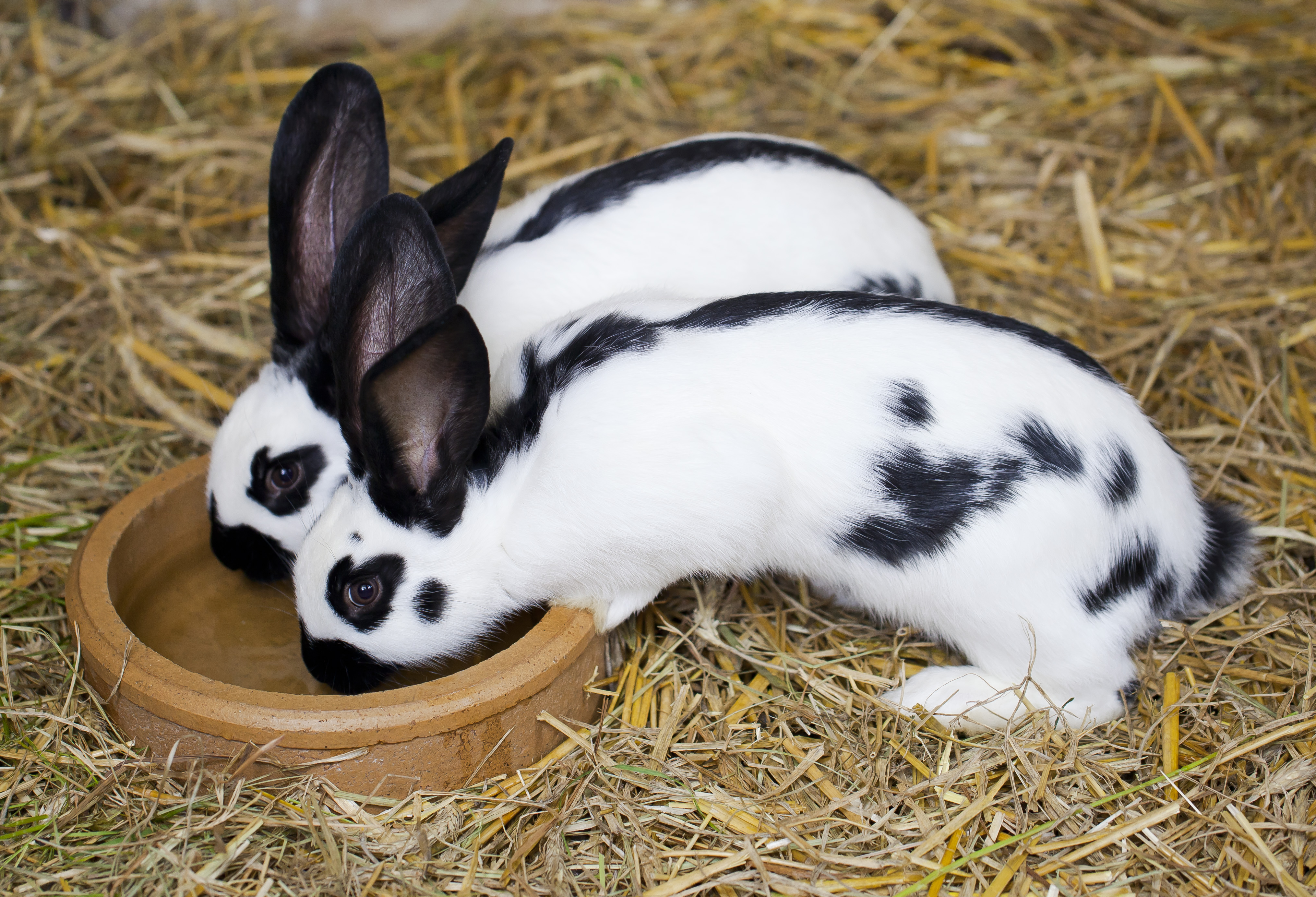 Rabbit (Oryctolagus cuniculus), Tierpark Hellabrunn, Munich, Germany